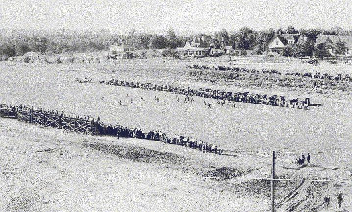 The inaugural football game on Riggs Field in Clemson, South Carolina. Clemson and Davidson tied, 7-7 on October 2, 1915.